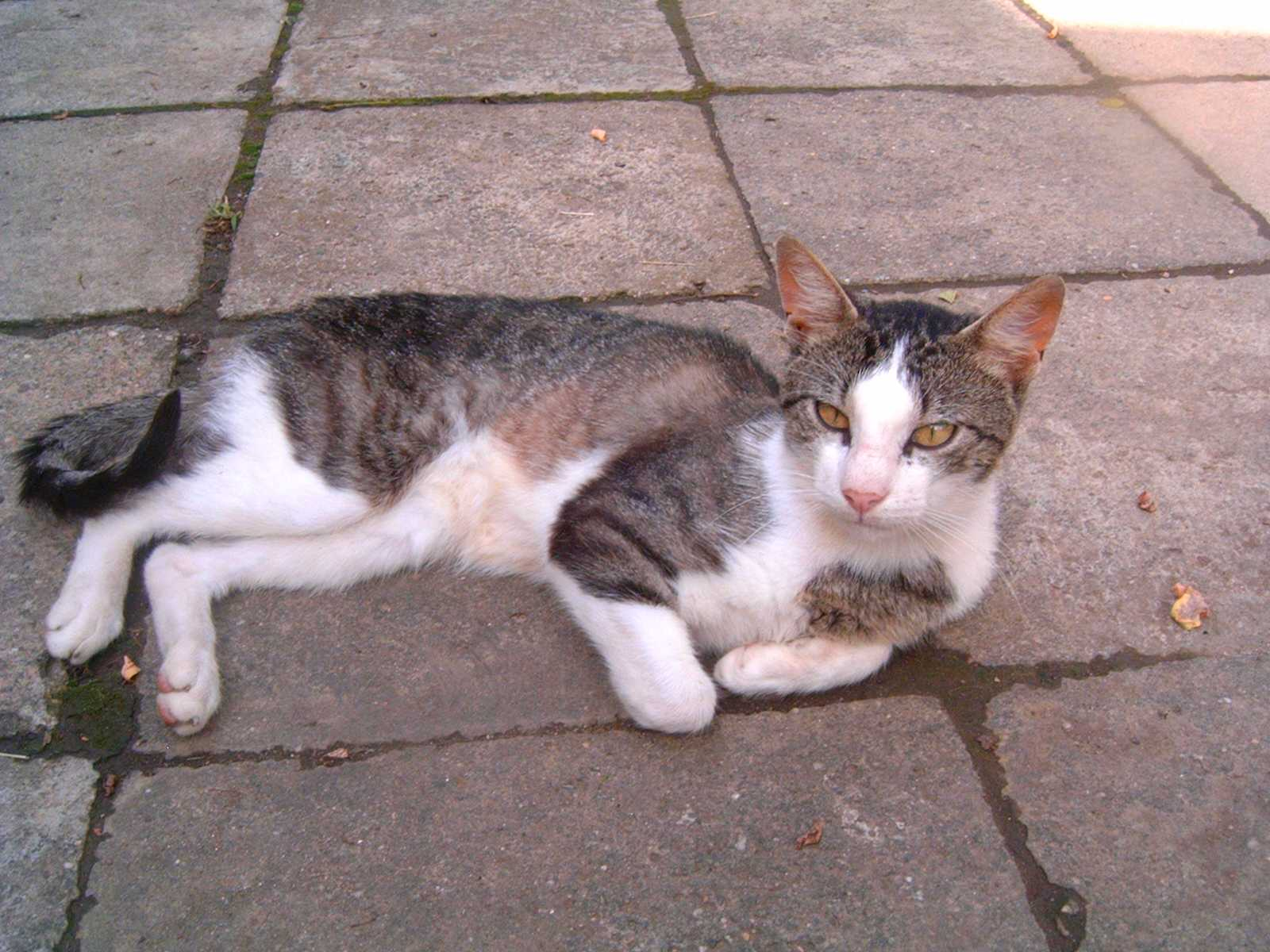 Cat lies in the pavement.